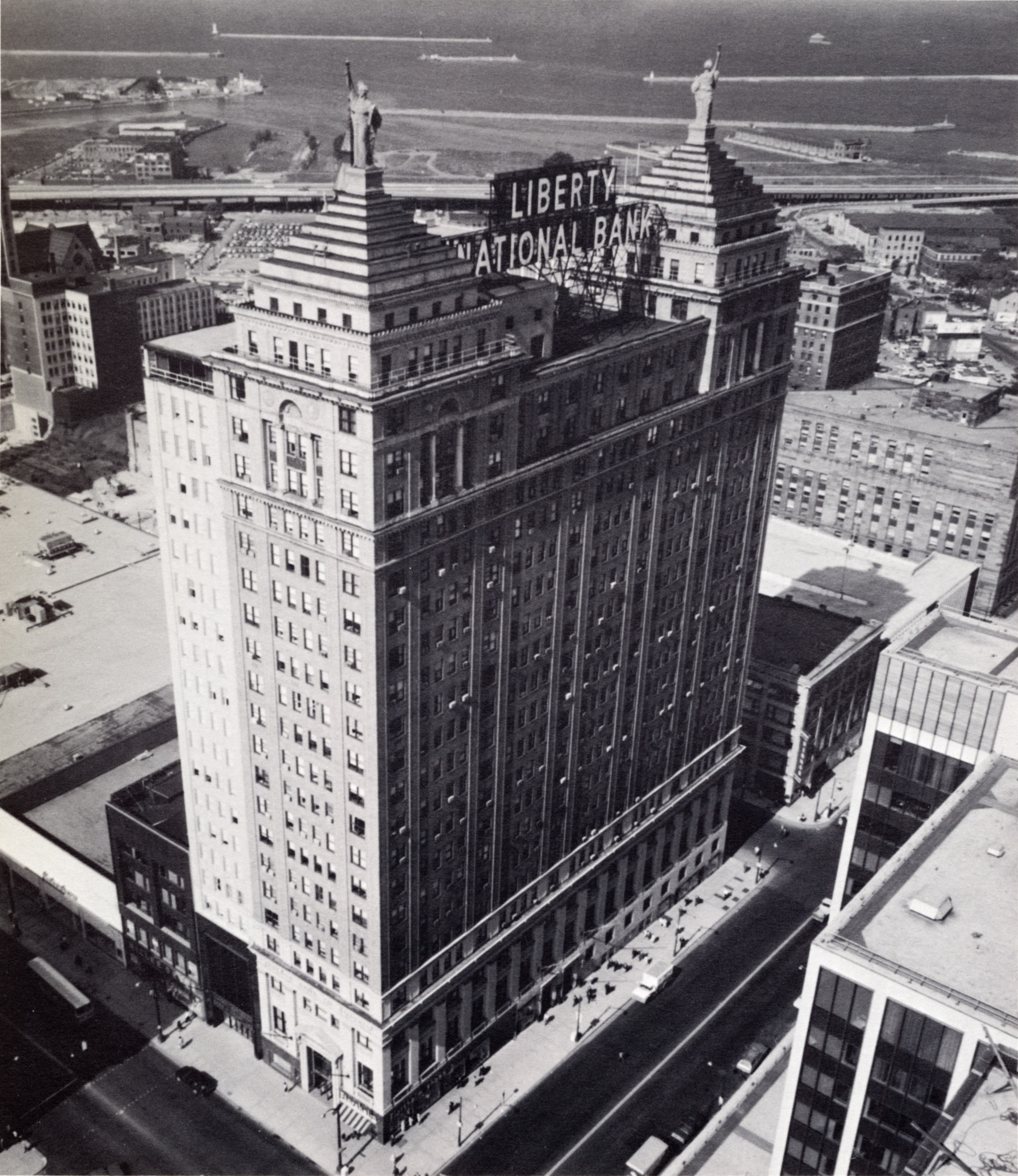 Liberty National Bank building in Buffalo, New York, from a 1970 advertisement